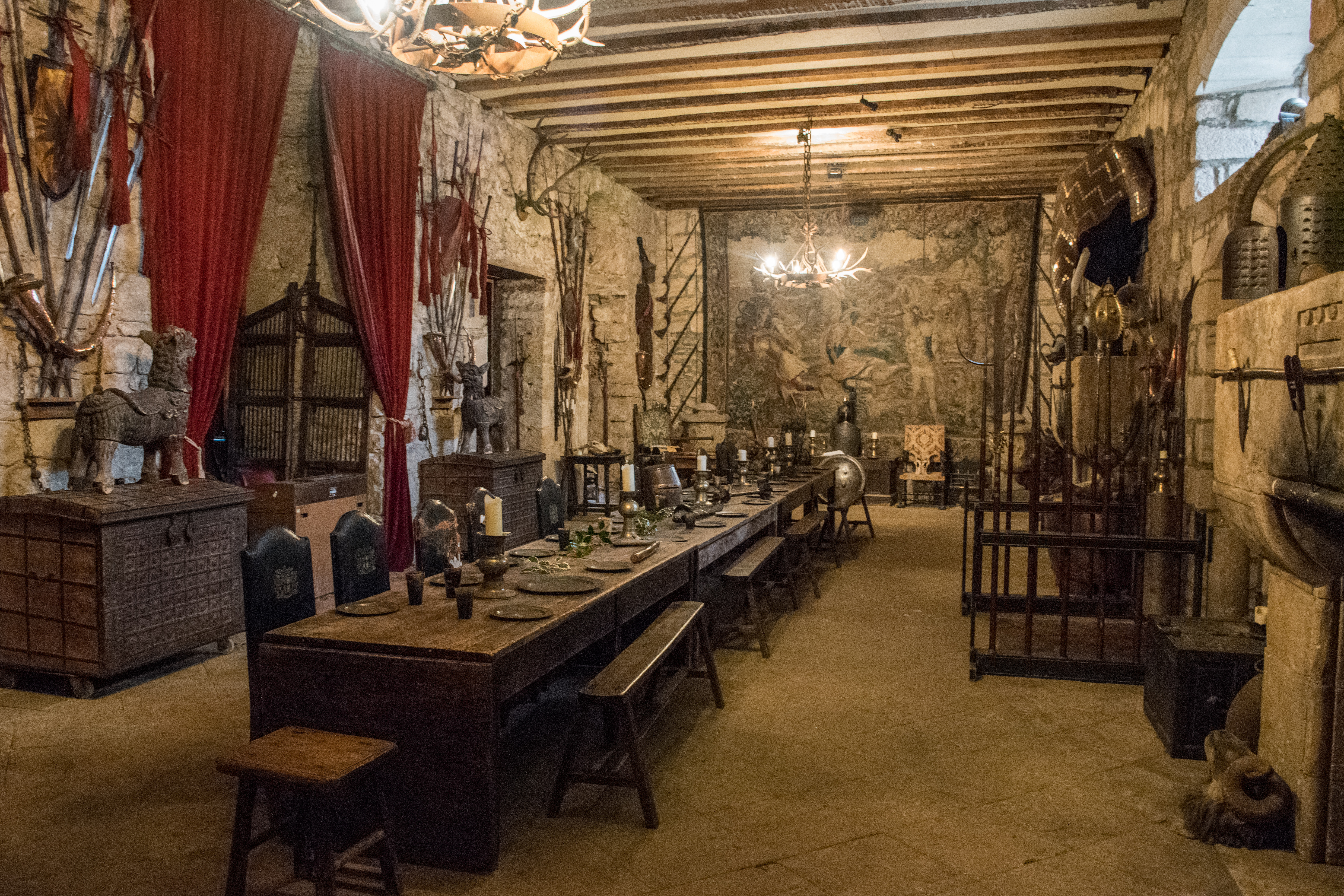 Great hall of Chillingham Castle, Northumberland, England, showing some of owner Humphry Wakefield's collection of antiques. The fireplace in the right foreground is a film prop from 1998 film Elizabeth, covering an 18th century fireplace which Wakefield does not consider to fit the look of the room.